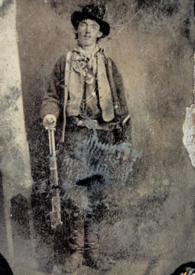 Scan of original Billy the Kid ferrotype kept by Lincoln County, New Mexico museum and sold at auction in 2011